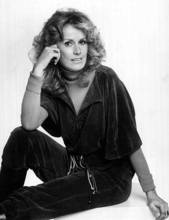 Photo of Diana Hyland from the premiere of the television program Eight is Enough. Three weeks after the show first aired, Hyland died of cancer.